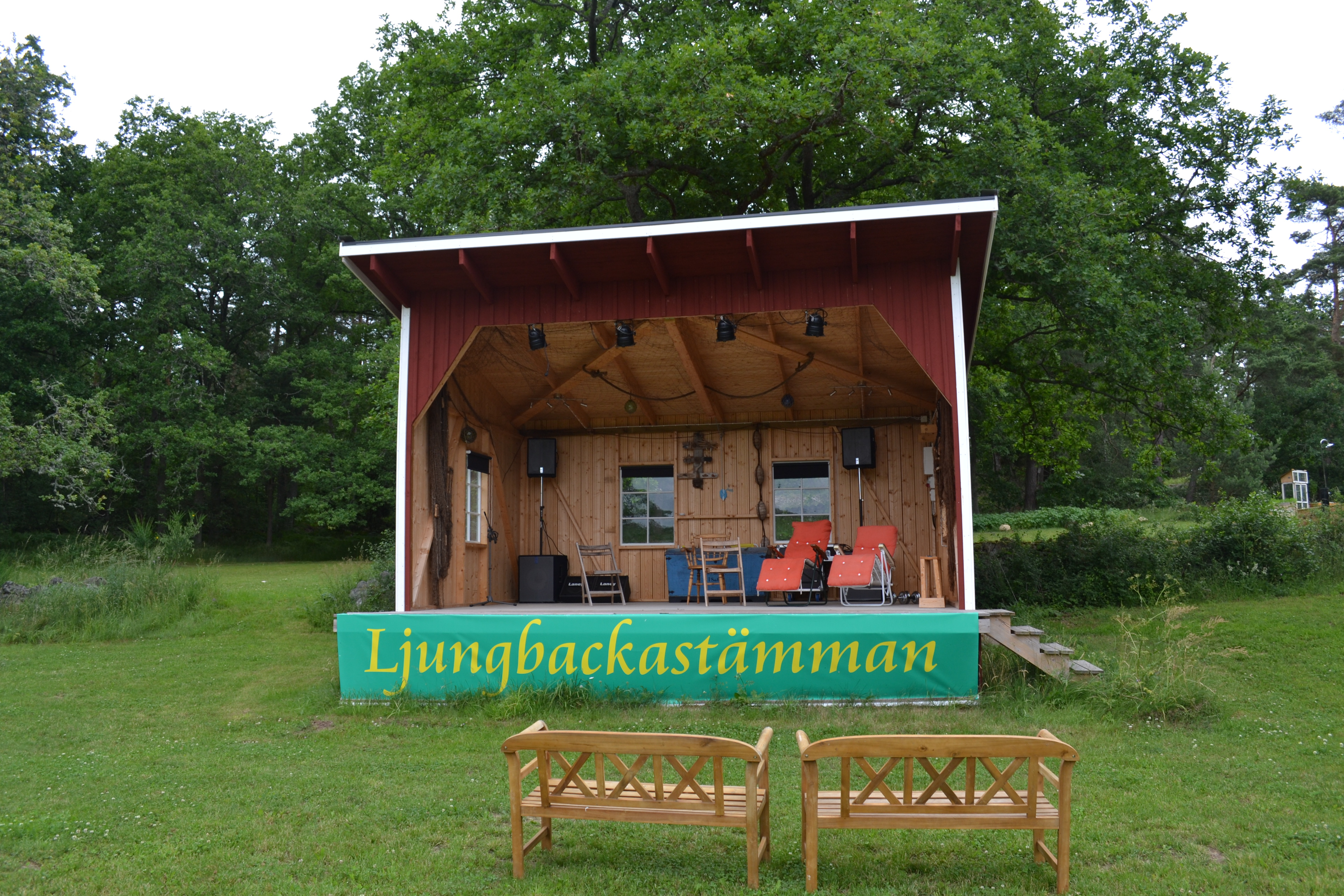 The stationery stage to the folk music game "Ljungbackastämman" in Ebbalycke, Blekinge Sweden